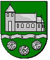 Coat of Arms of Thomasburg First upload in de-wp: Die wilde 13 (21:37, 8. Jan. 2007 - Bild:Gemeinde Thomasburg.jpg)